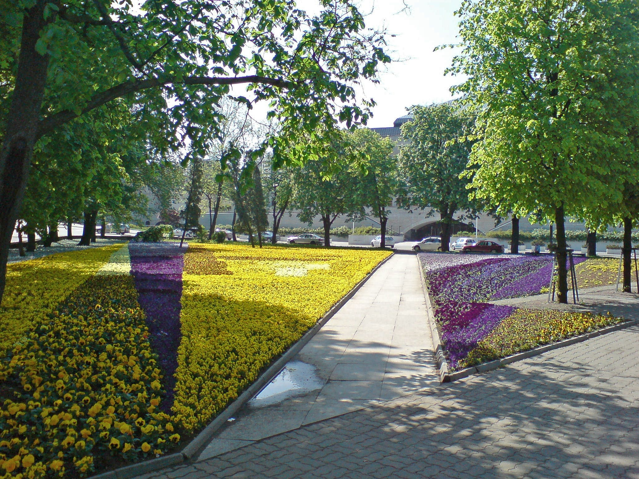 Image of flower plantation on Tõnismägi (original location of the Bronze Soldier), Tallinn, Estonia